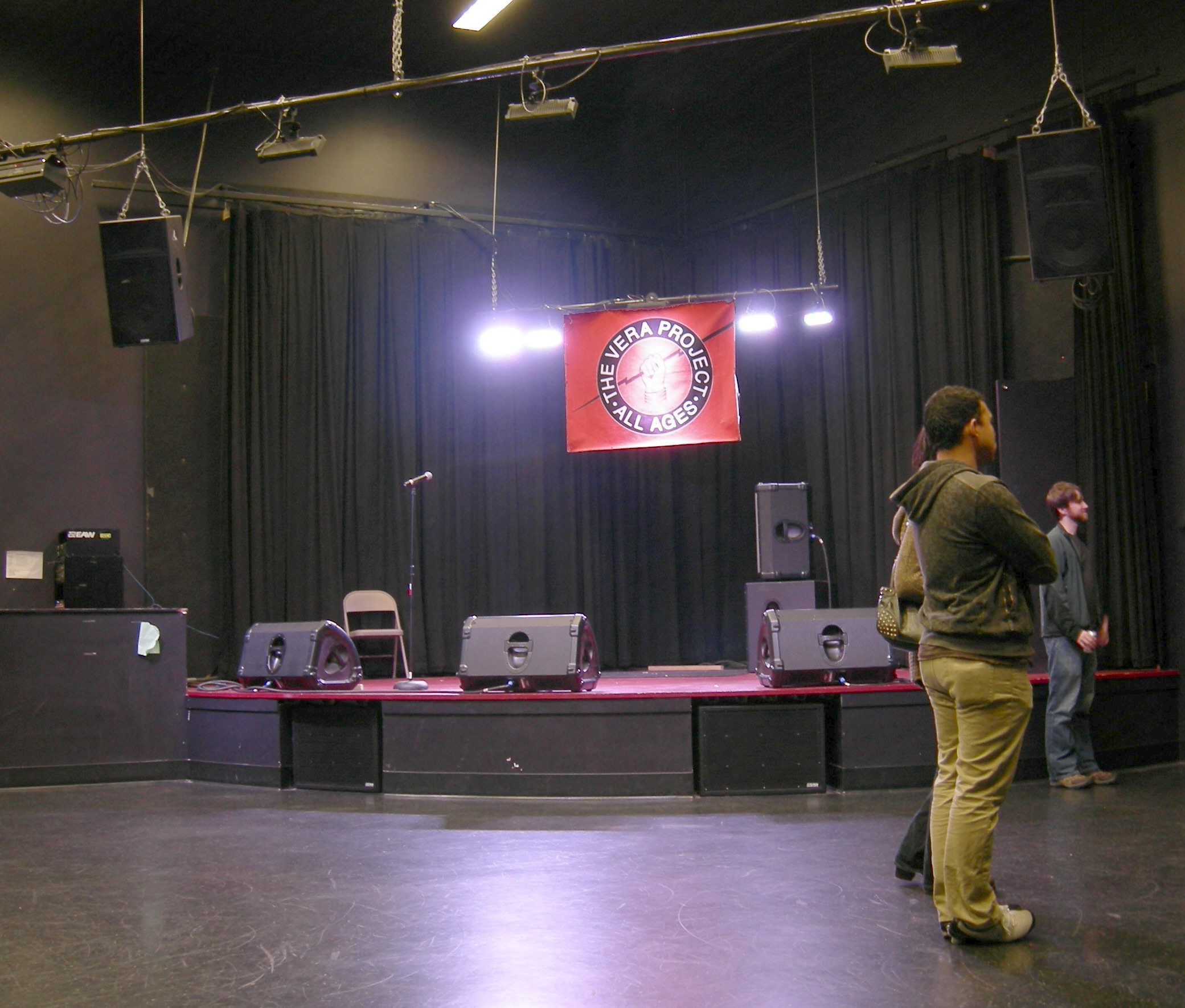 Main stage, The Vera Project space at Seattle Center, Seattle, Washington. The Vera Project is an all-ages music and art center.